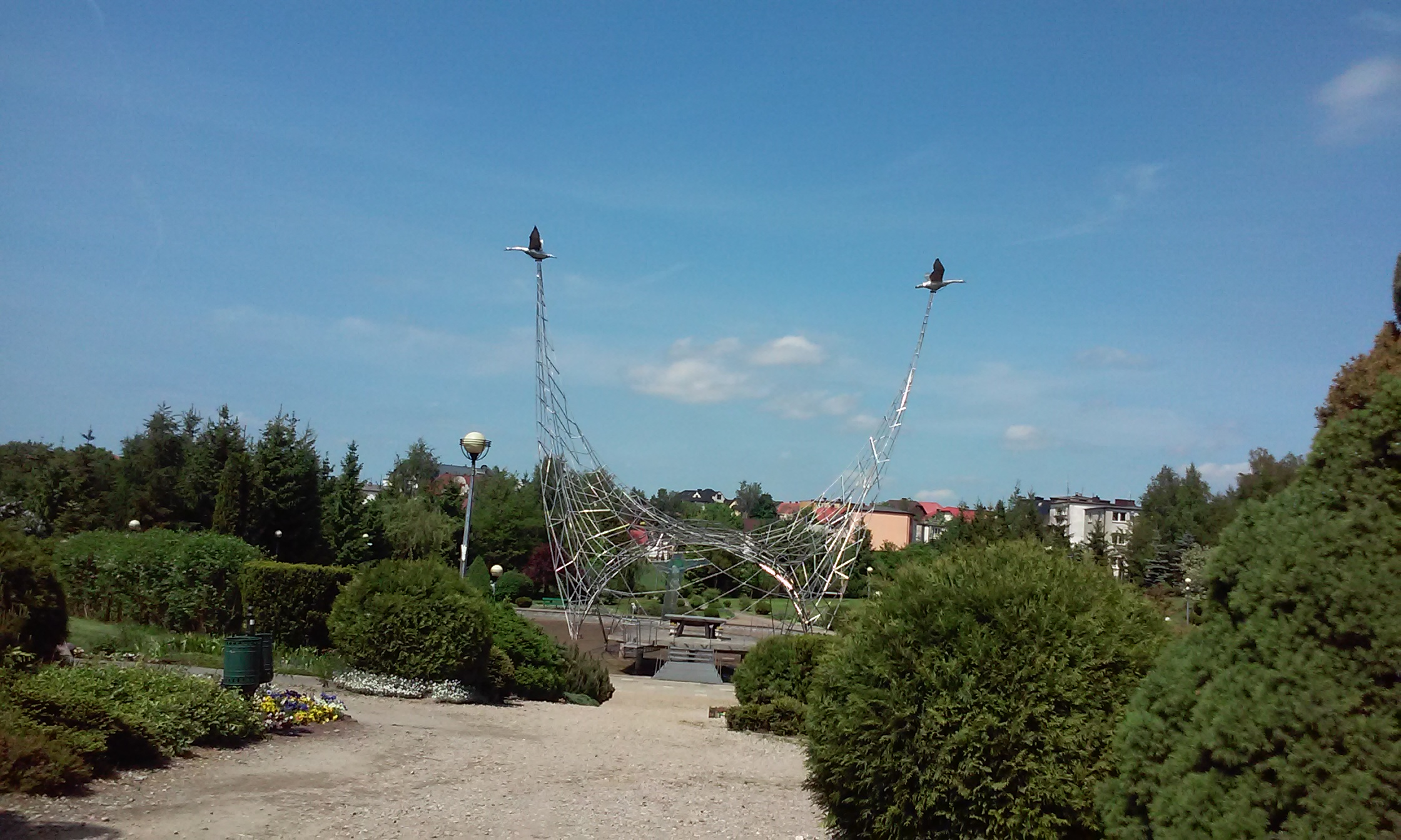 Sierakowice (Pomerania), the papal altar